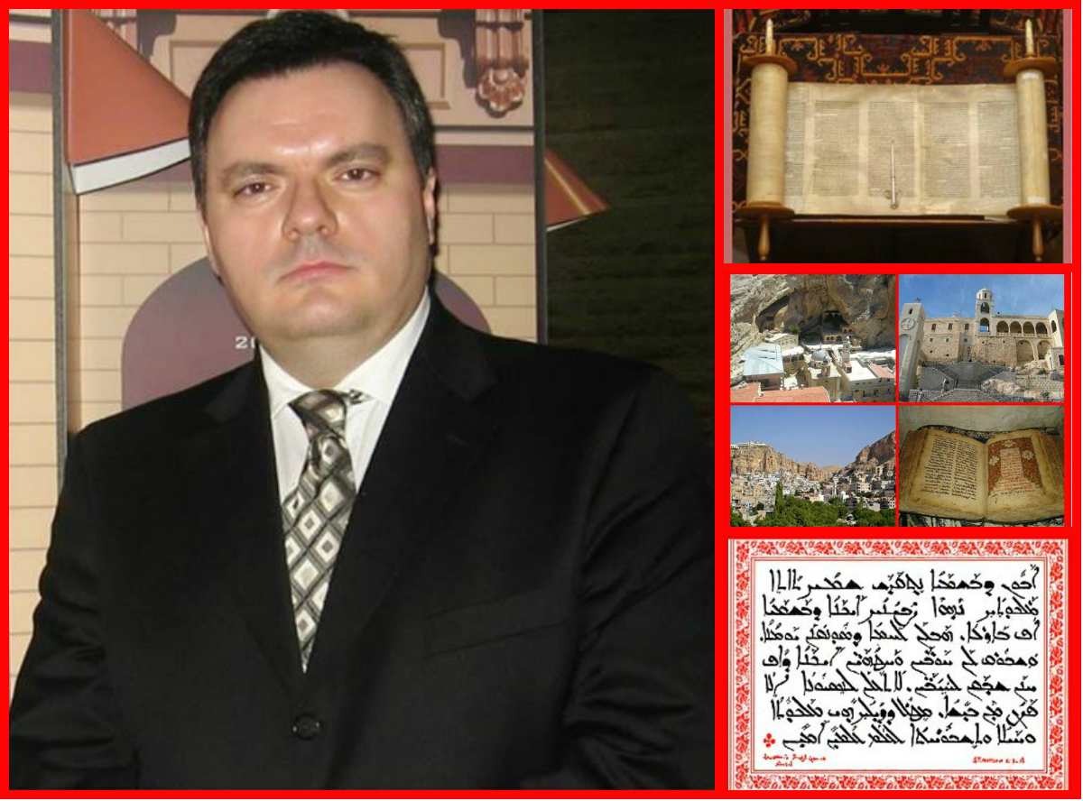 Arman Akopian